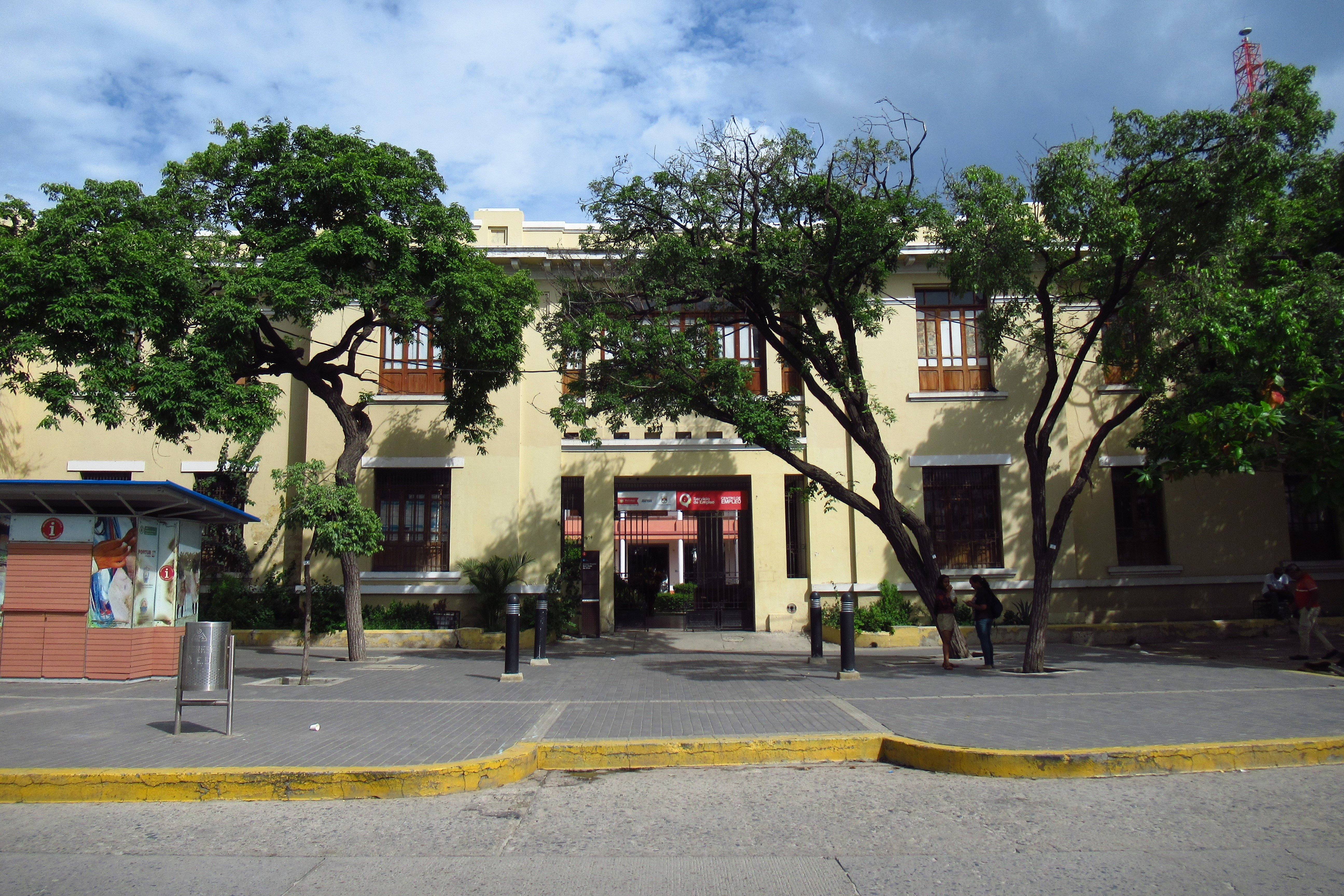 Santa Marta